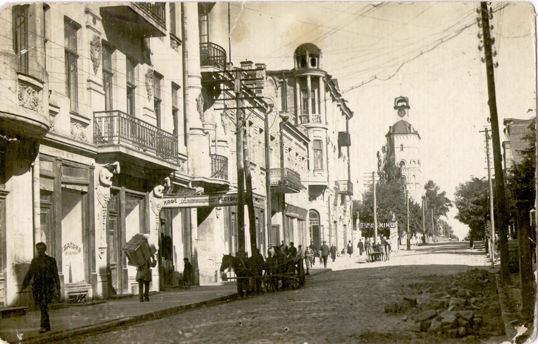 Kozytskij street, left hand hotel Savoj, in the centre of the town of Vinnytsia, Ukraine.